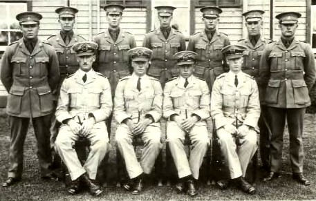 In December 1930 the RAAF withdrew all its cadets in training at the Royal Military College, Duntroon, thus ending an association which had operated since 1924. In addition to four graduates who had been completed their training and been commissioned—(seated, from left): Lieutenants W.L. Hely, A.G. Pither, C.M. Blarney, H.E. Sharp—there were eight cadets who joined the next flying course (from left): W.H. Garing, A.C. Mills, T.C. Curnow, C.D. Candy, R.A. Holmwood, H.F. Boss-Walker, A.M. Murdoch. Cadet I.D. McLachlan is absent from the photo, having been admitted to hospital for knee surgery.